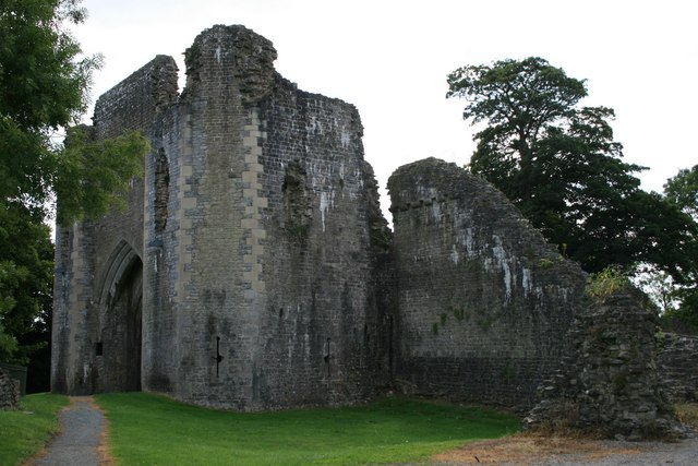 Saint Quentin's castle, Llanblethian Remains of a early fourteenth century courtyard castle which was probably built by Gilbert de Clare, (d.1314). As well as having substantial walls, its main feature is a massive twin towered gatehouse.